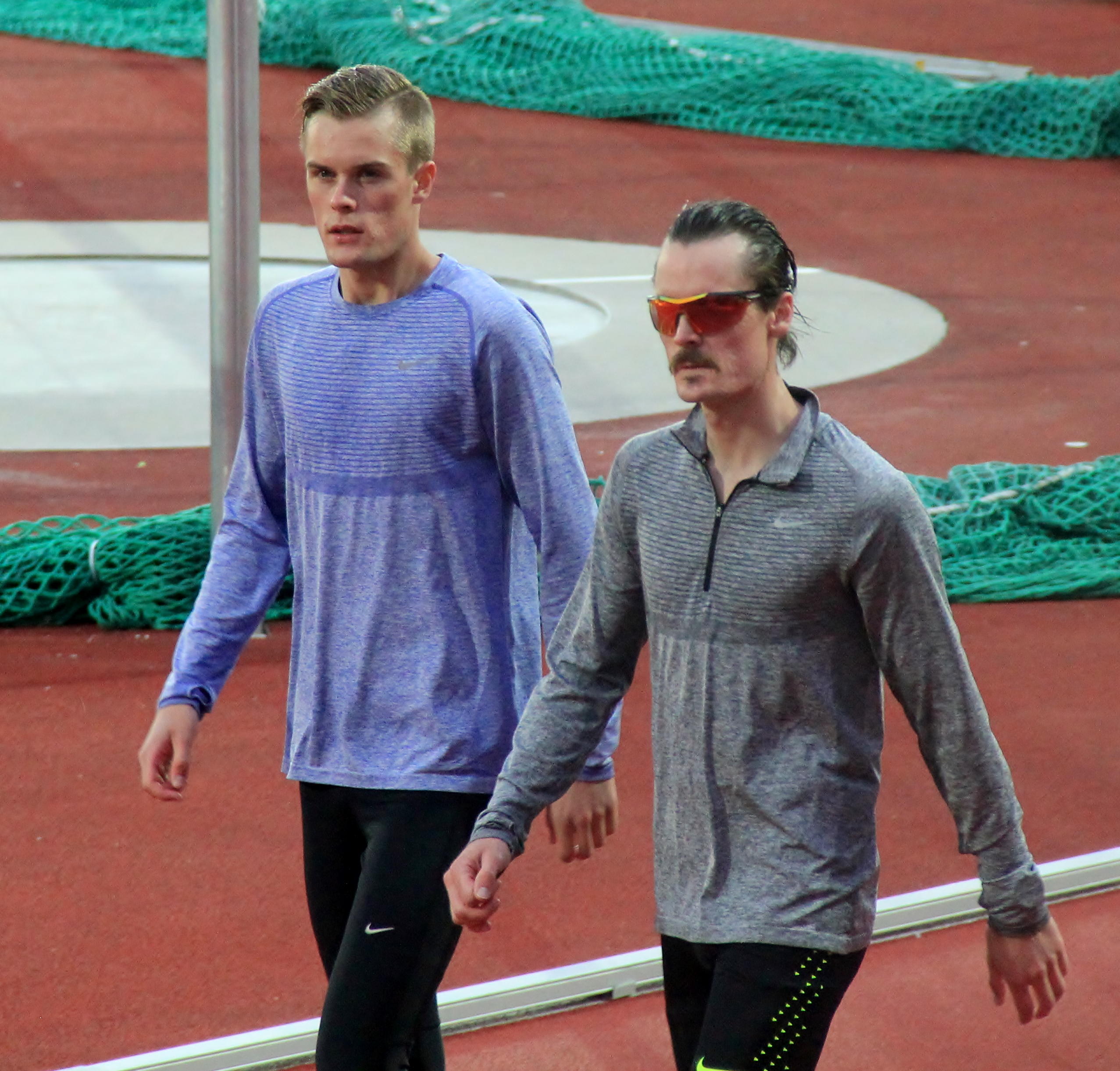 Filip and Henrik Ingebrigtsen at the 2016 Bislett Games